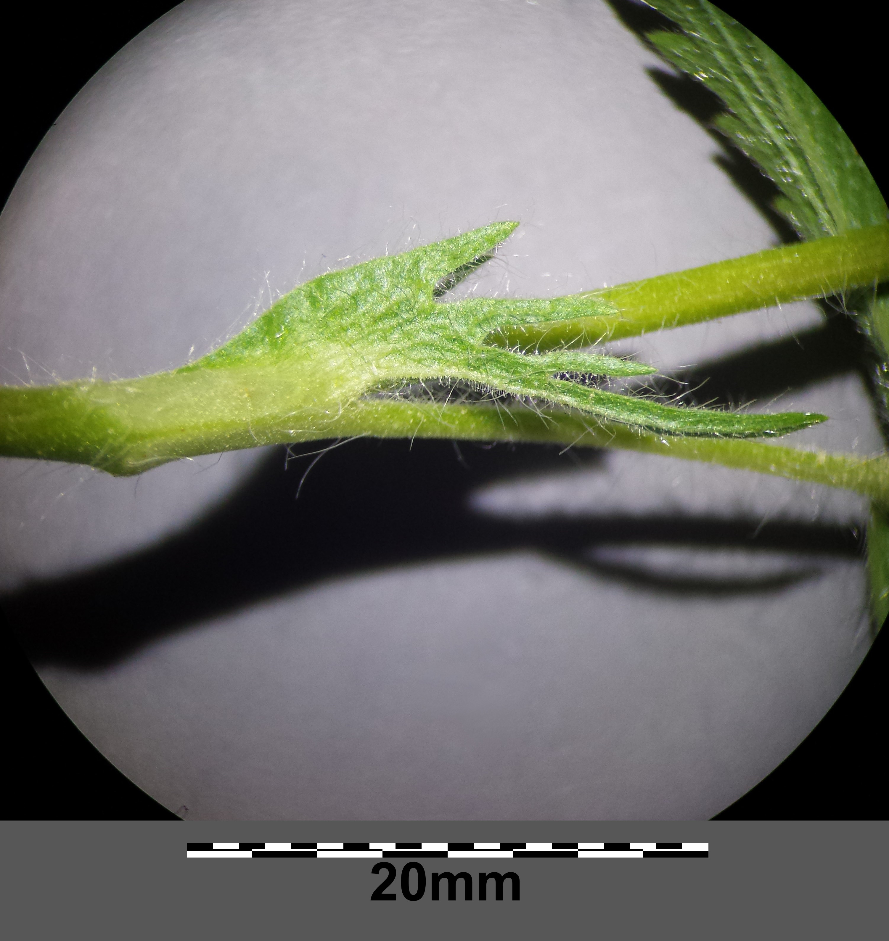 Stem with stipule Taxonym: Potentilla recta ss Fischer et al. EfÖLS 2008 ISBN 978-3-85474-187-9 Location: Neue Donau, Vienna-Floridsdorf - ca. 160 m a.s.l. Habitat: dry slope